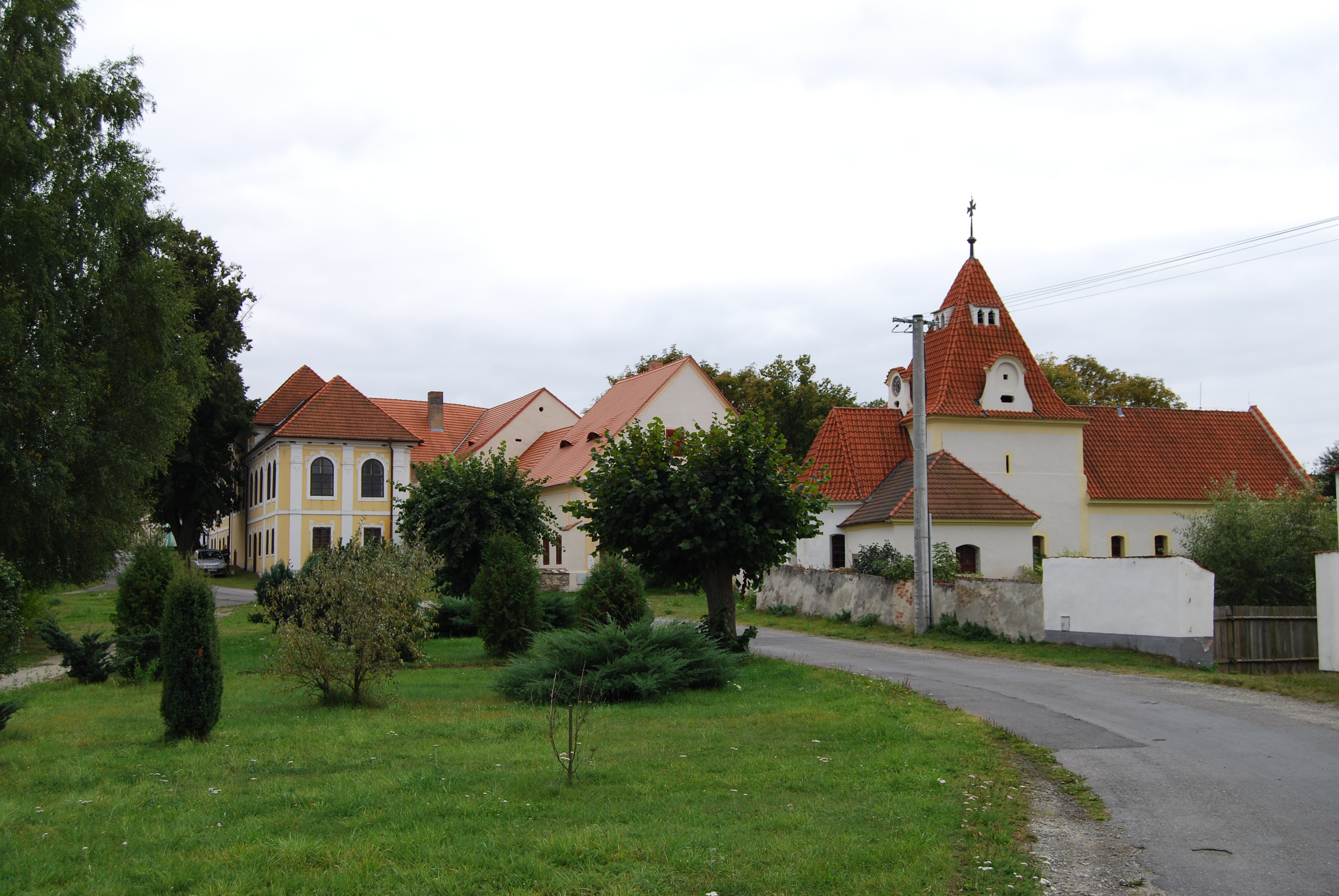 Varvažov village in Pisek District, Czech Republic. Church of sant Katrina